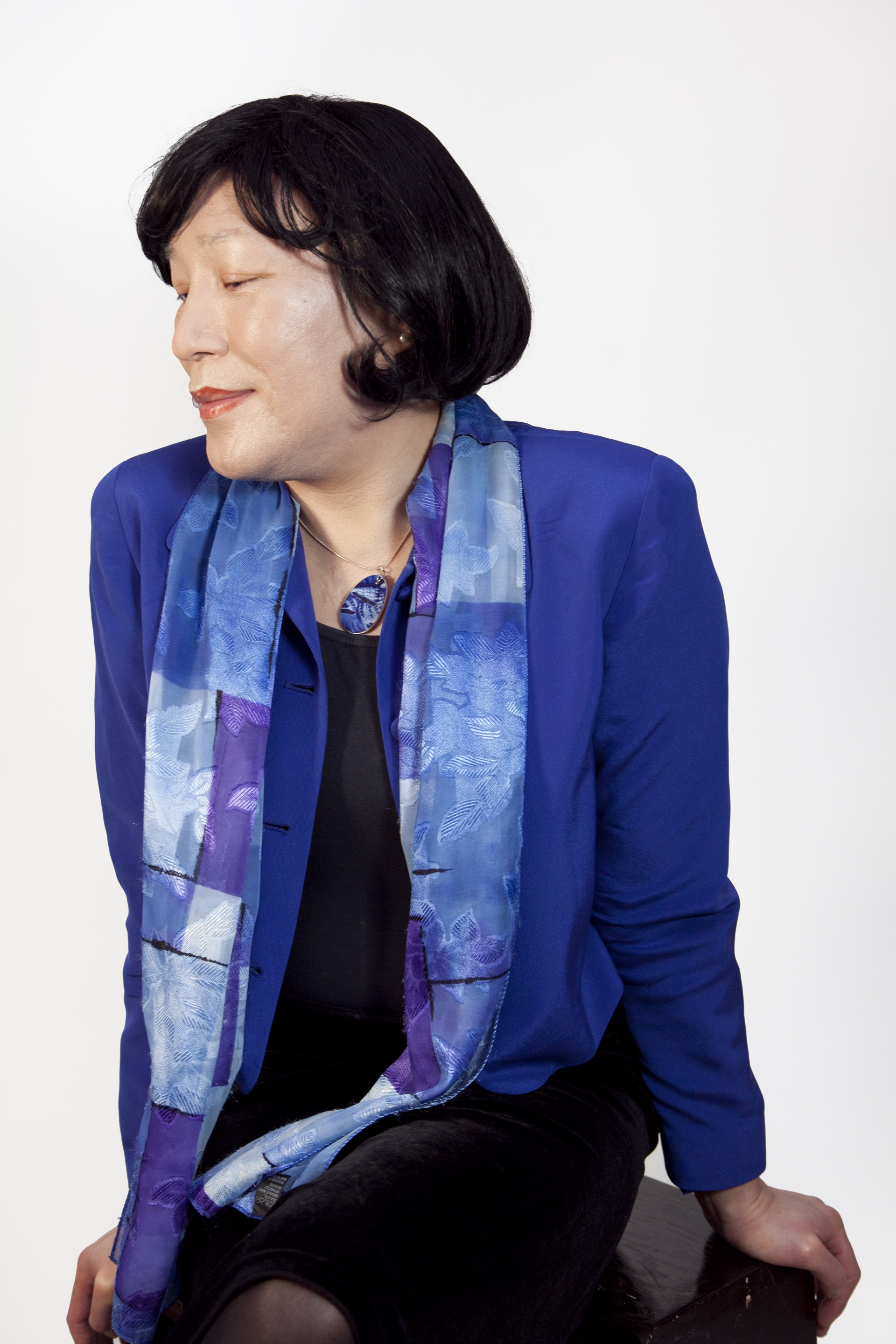 Pauline Park, transgender rights activist